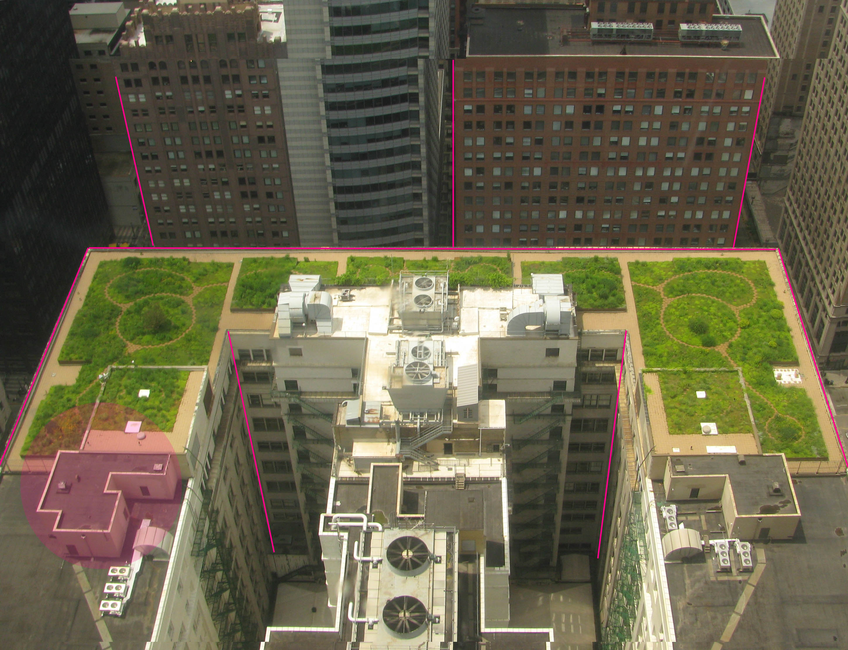 Chicago City Hall Green Roof